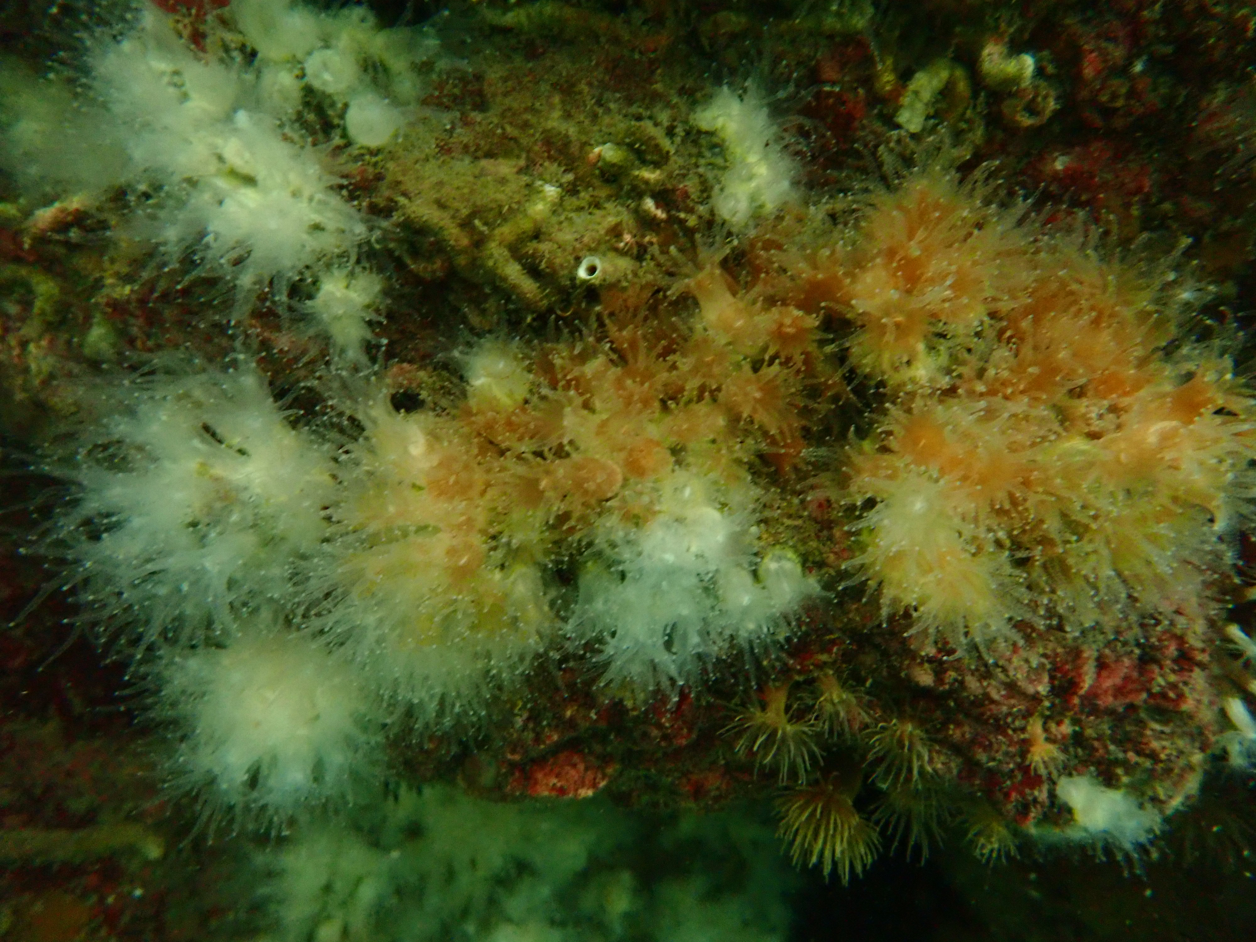 Astrangia poculata coral from Ft Wetherill, Rhode Island demonstrating facultative symbiosis. Please credit "Rotjan Lab" when using this file.